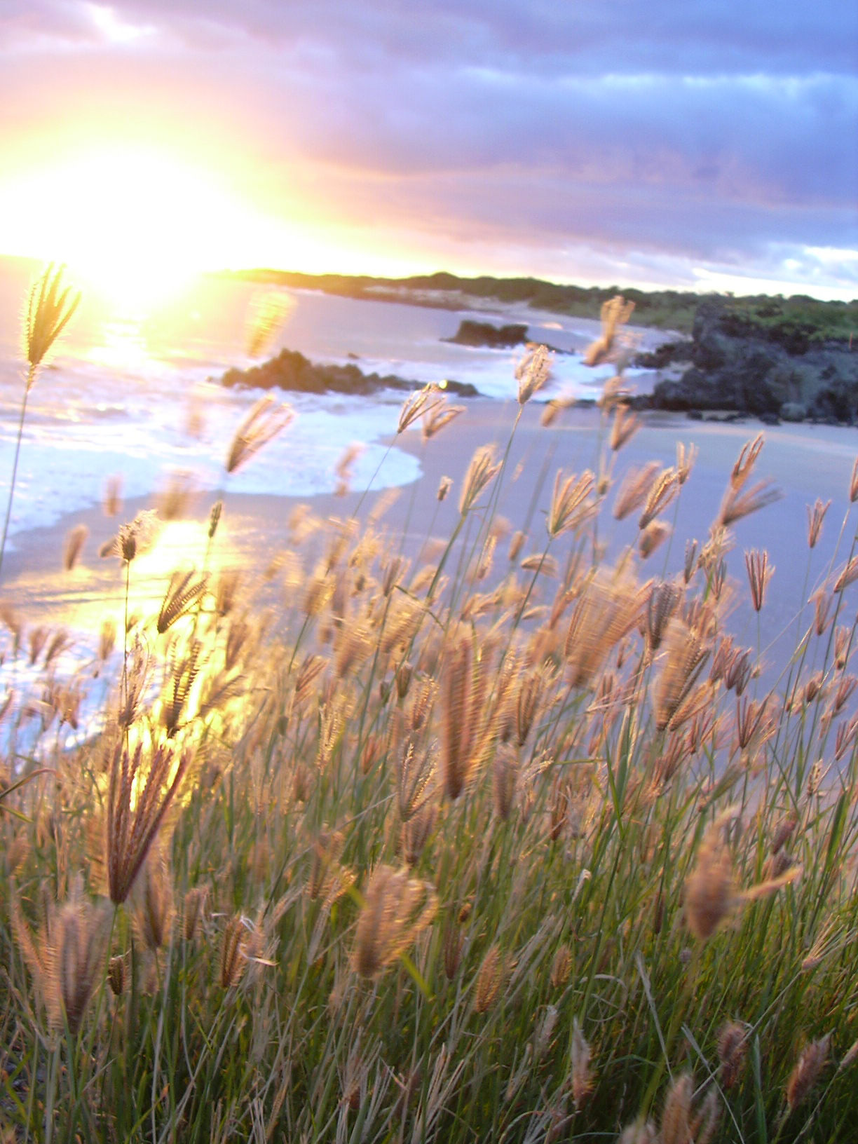 Chloris virgata (view sunset). Location: Kahoolawe, Honokanaia